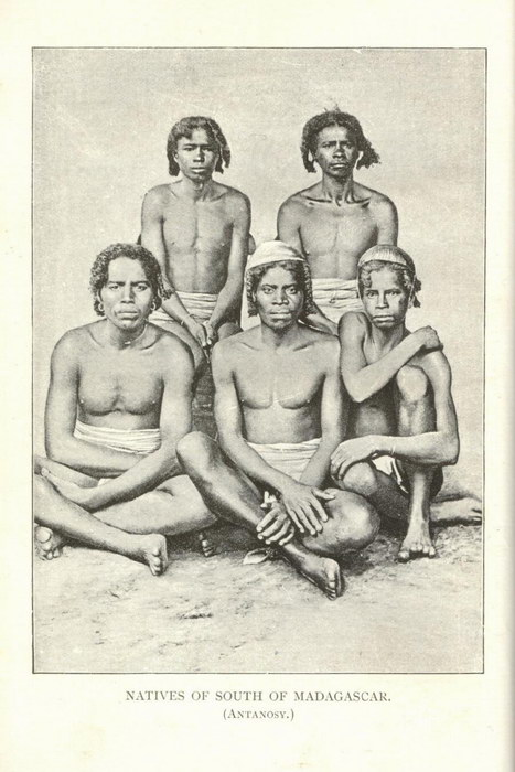 Madagascar; or Robert Drury's Journal During Fifteen Years' Captivity on that Island